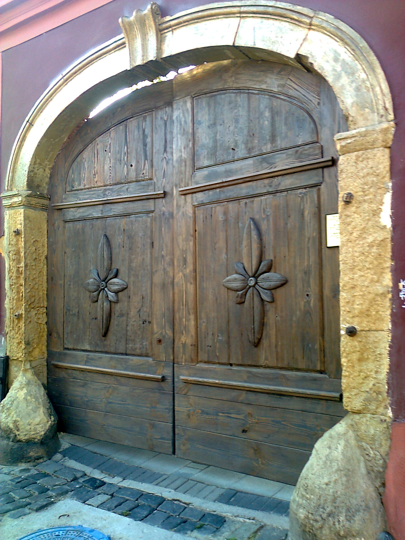 Gate of Café Bulgakov, Cluj-Napoca, Romania